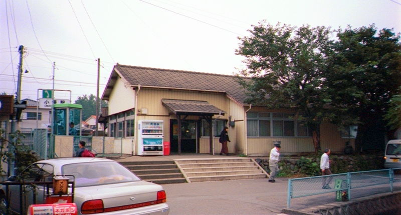 Old building of Omata Station on JR East Ryomo Line